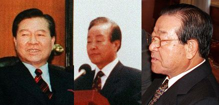 Kim Dae-jung,Kim Young-Sam and Kim_Jong-pil, the three Kim democracy advocates in S Korea history